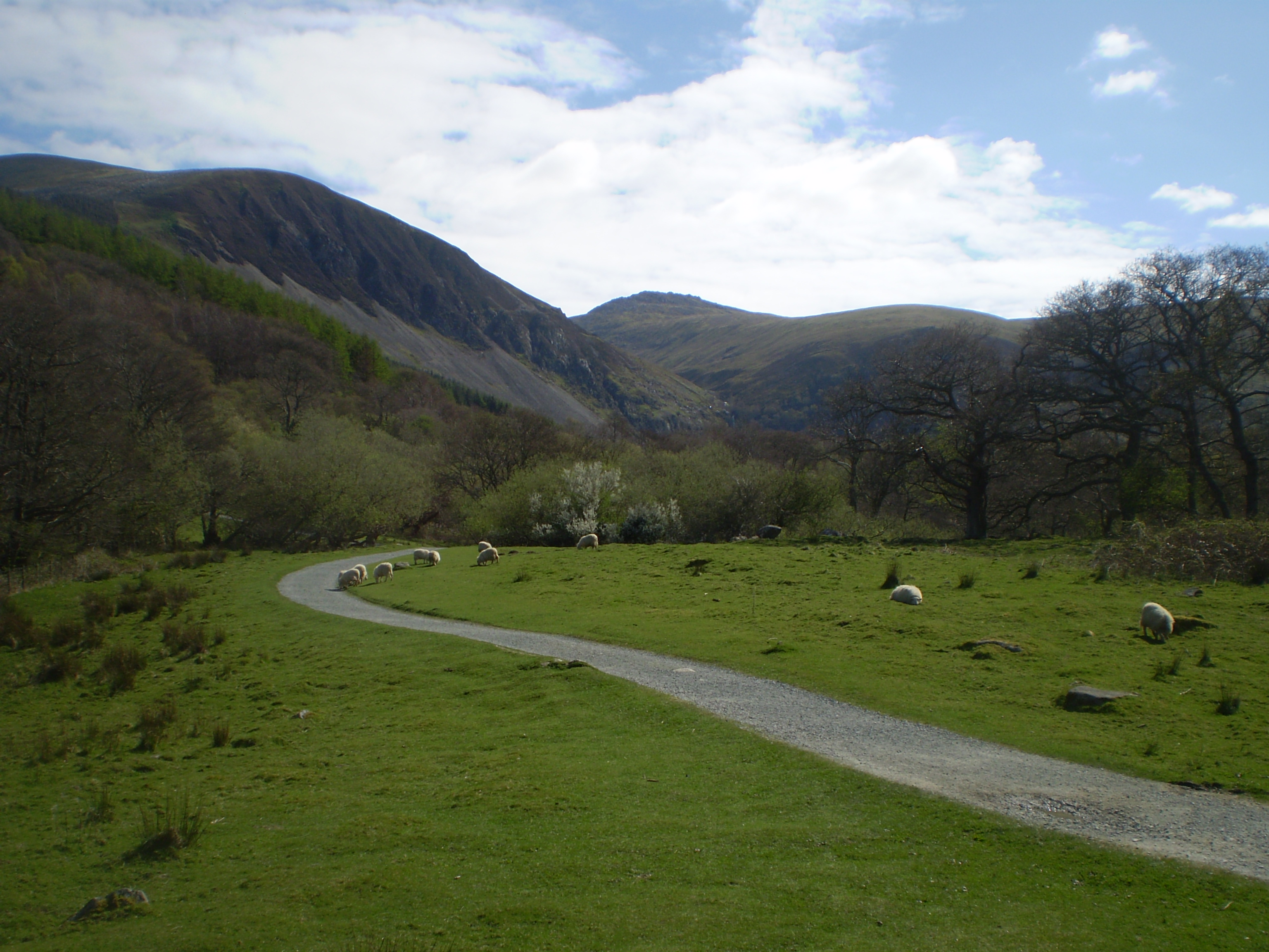 bera mawr mountain from the path to aberfalls north wales